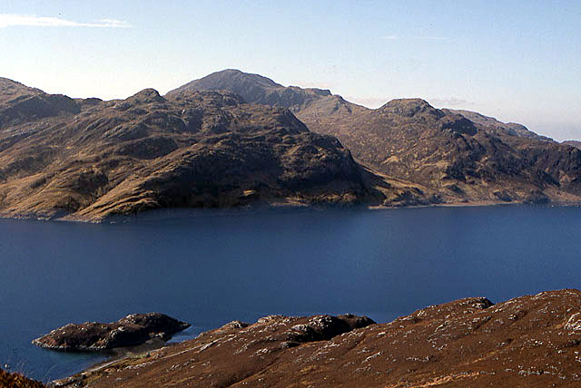 Loch Hourn Seen from the path to the Bealach Arnisdail. Beinn na Caillich is the mountain in the distance.